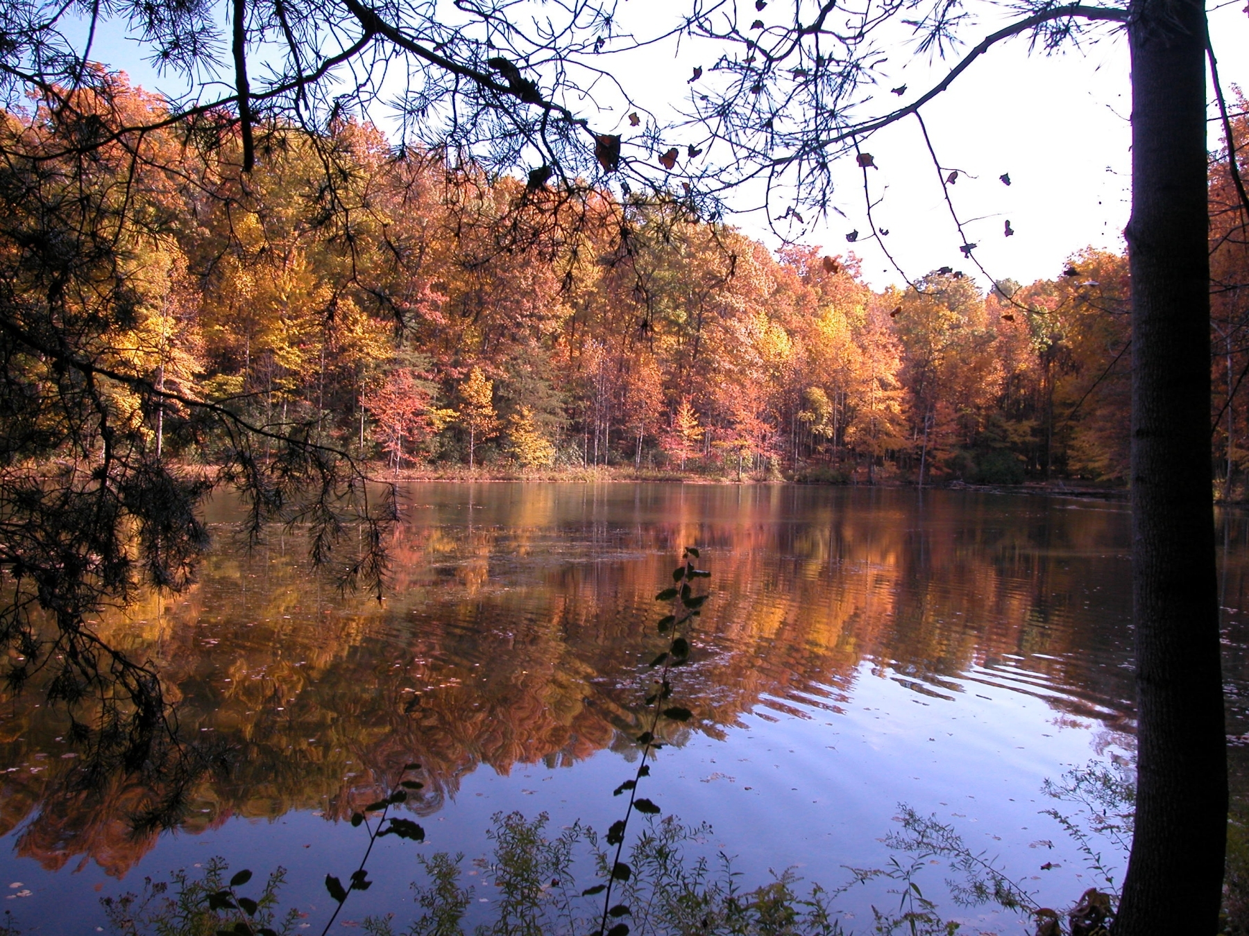 Fall colors reflecting in Clopper Lake. Seneca Creek State Park, Maryland.